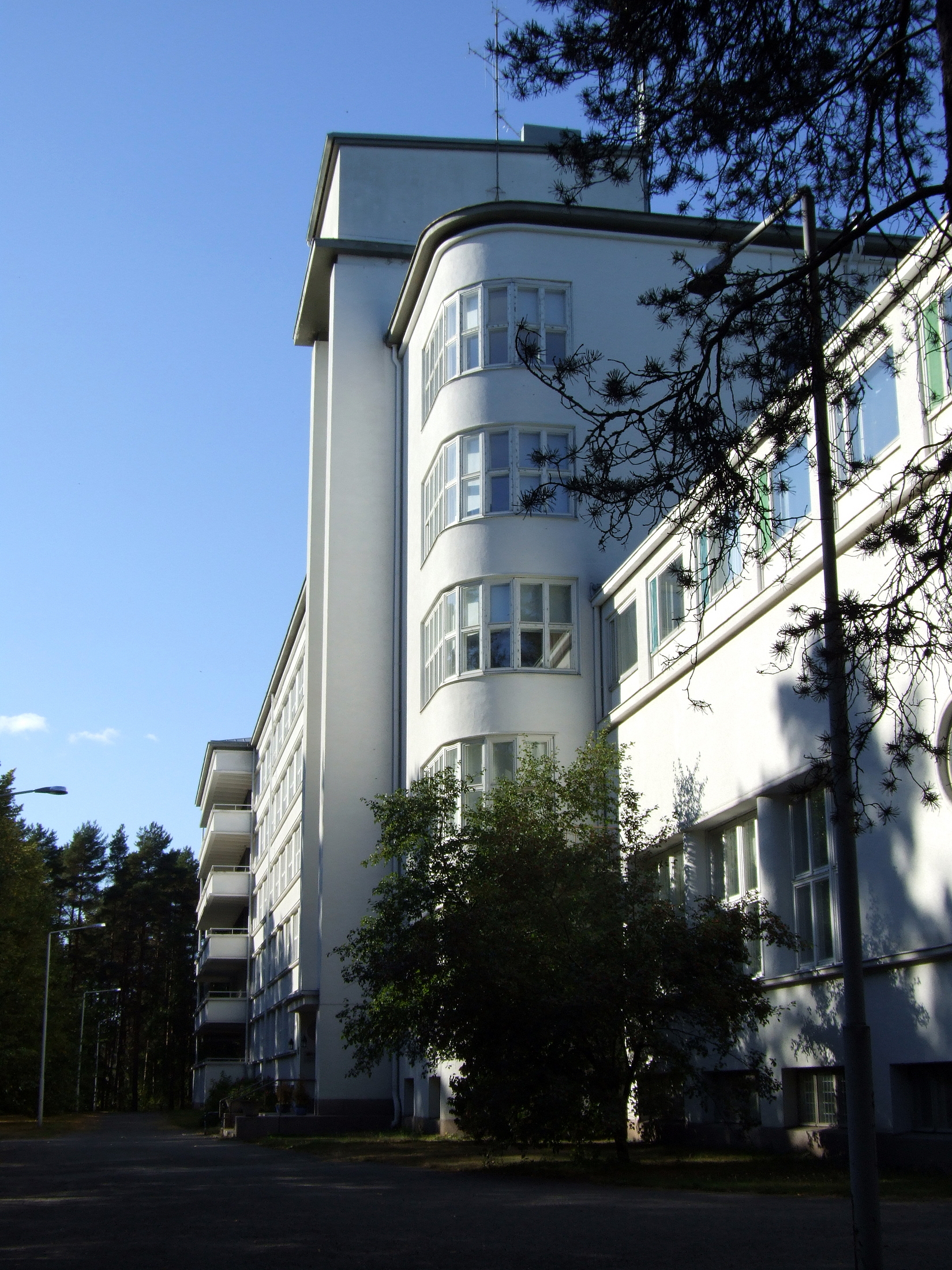 The former Päivärinne tuberculosis sanatorium in the municipality of Muhos near the city of Oulu, Finland. Nowadays the buildings hosts different welfare and health services. The building was completed in 1932 and designed by architects Jussi and Toivo Paatela.